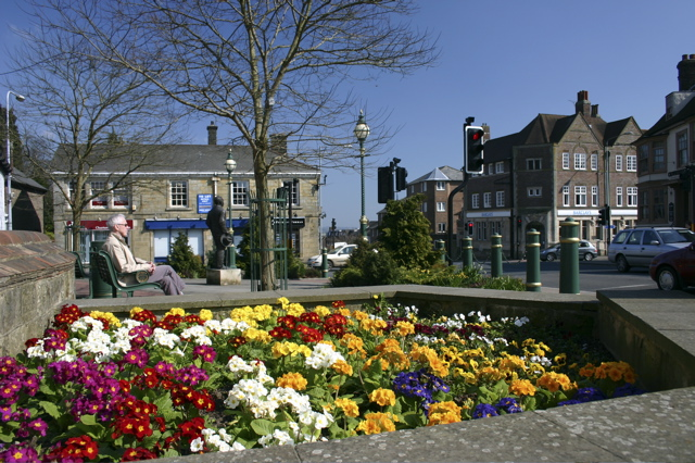 Crowborough Cross Spring flowerbed near the Sir Arthur Conan Doyle statue